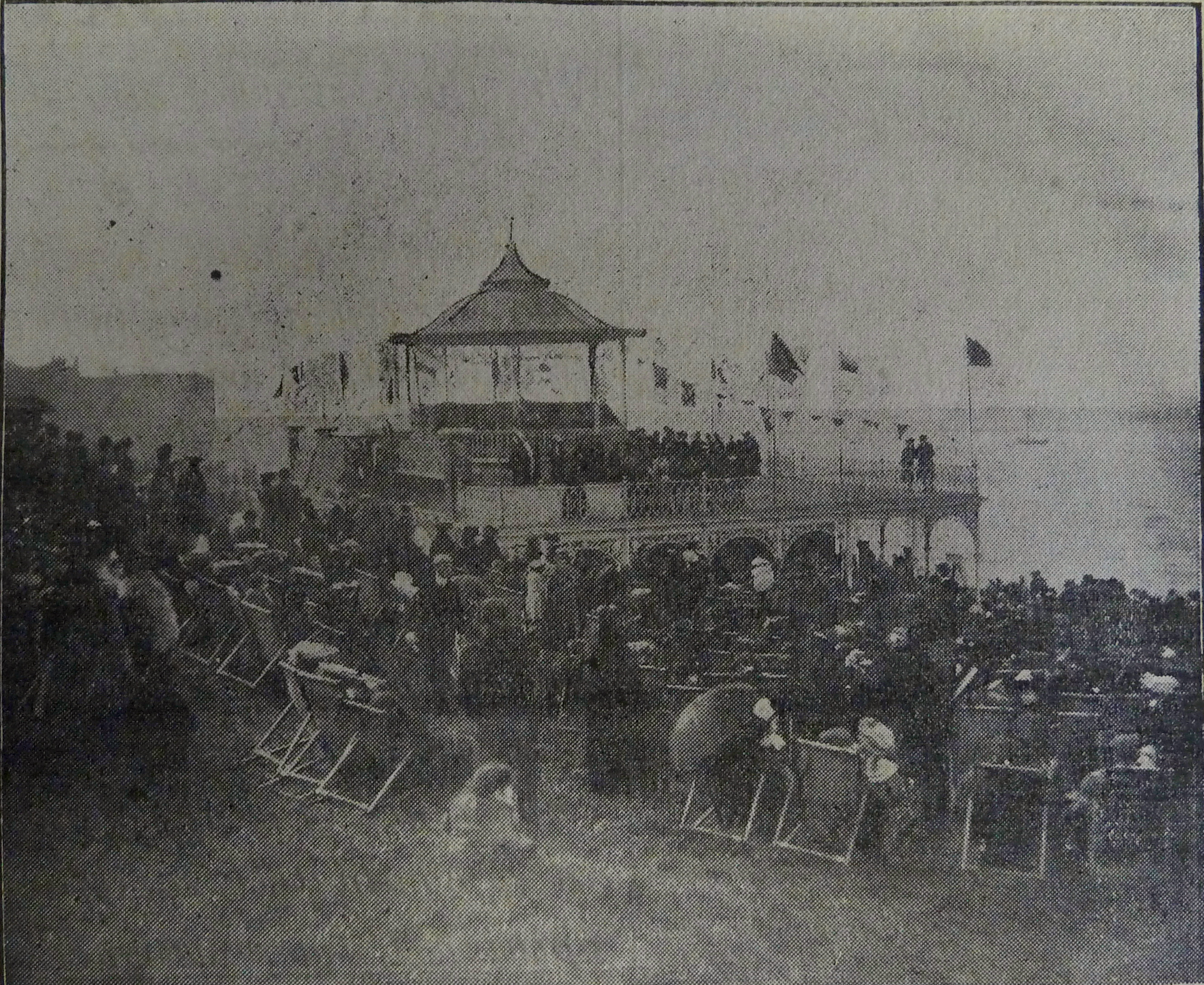 The Pavilion or Bandstand (later called the King's Hall), Herne Bay, Kent, England, on Opening Day of its first phase, 4 April 1904. Points of interest There is a band playing in the bandstand. The bandstand no longer exists on top of King's Hall.